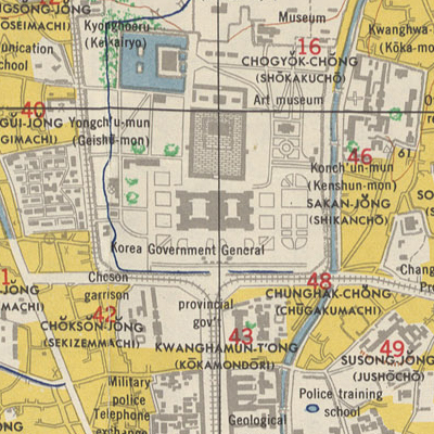 Korean Government-General Office